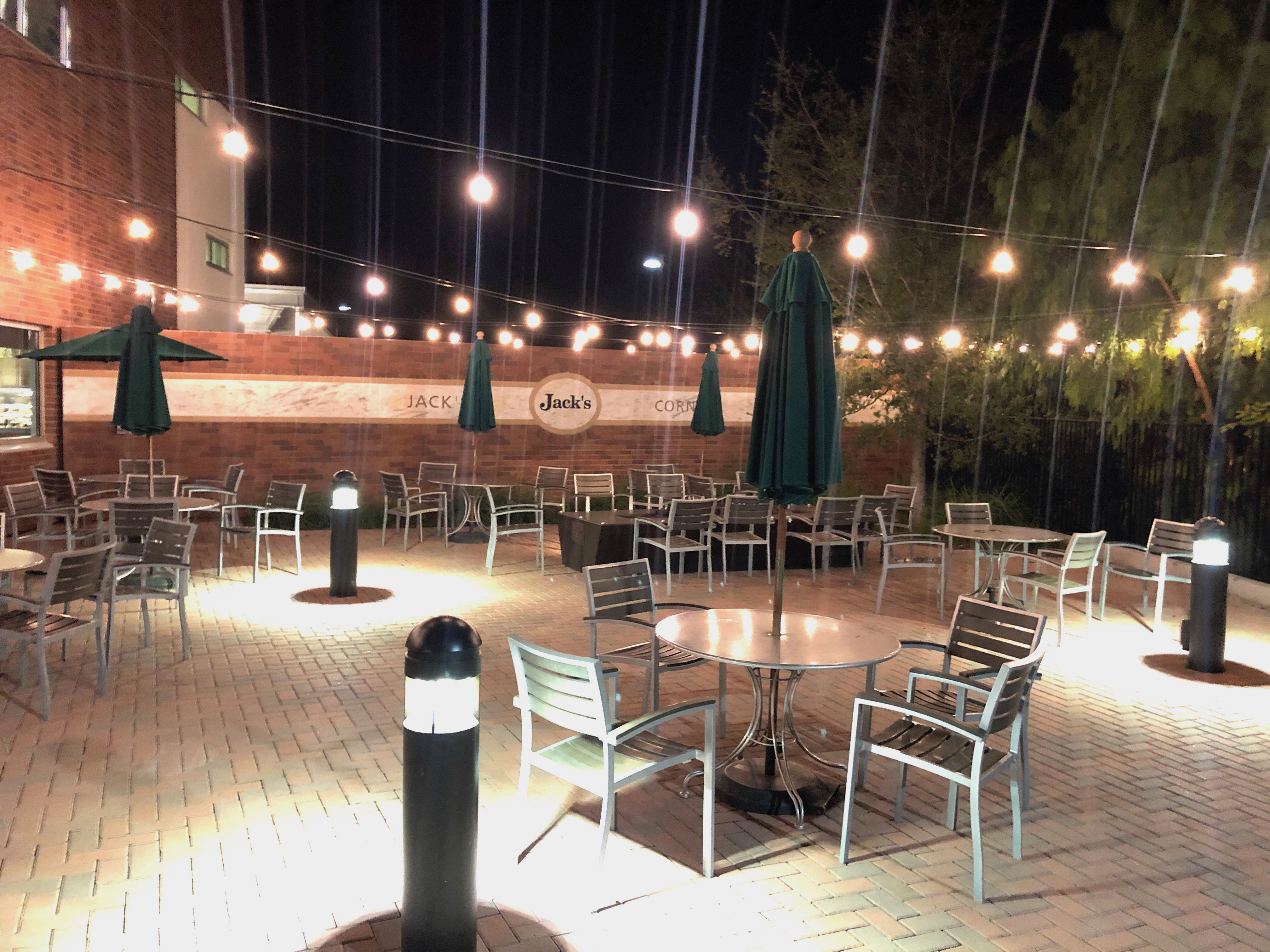 Jack's Corner by Ullman Commons, at the campus of California Lutheran University